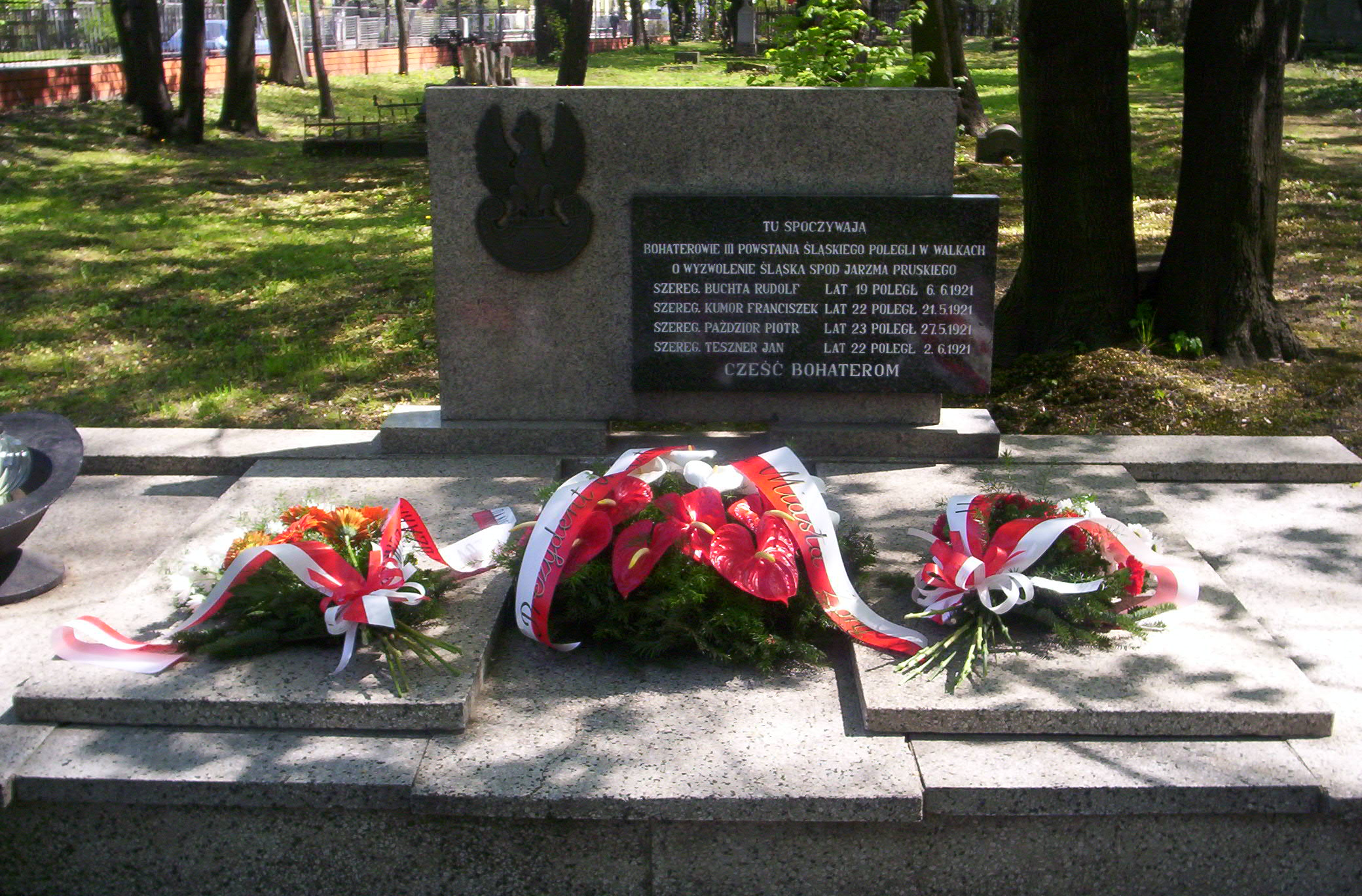 Silesian Insurgents' Memorial, Żory